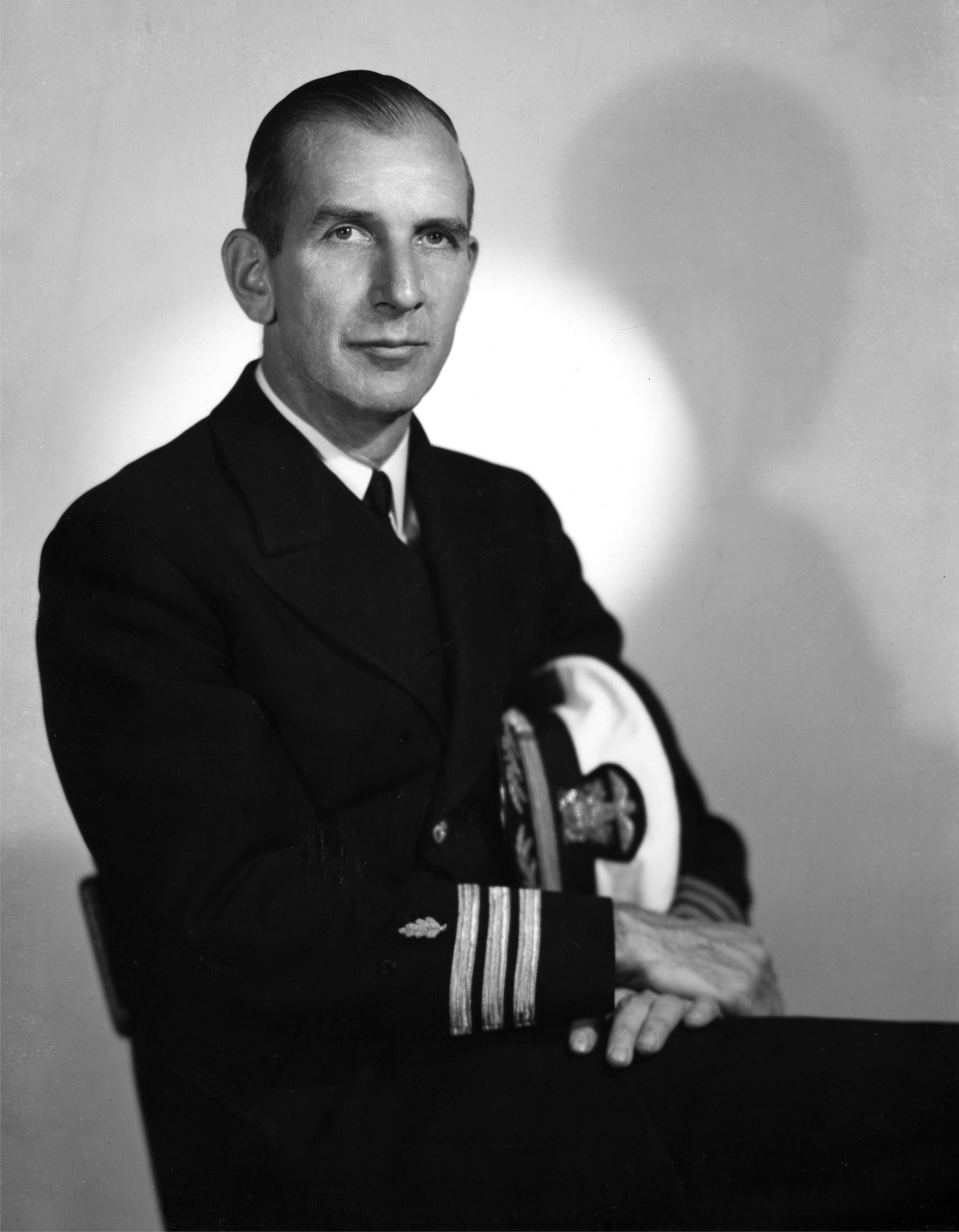 Richard Edwin Shope, American virologist, during his US Navy career